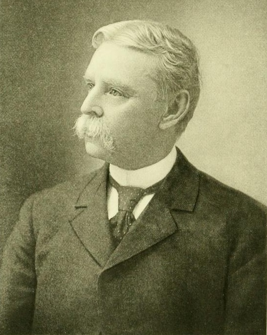 Clement Hall Sinnickson (New Jersey Congressman)